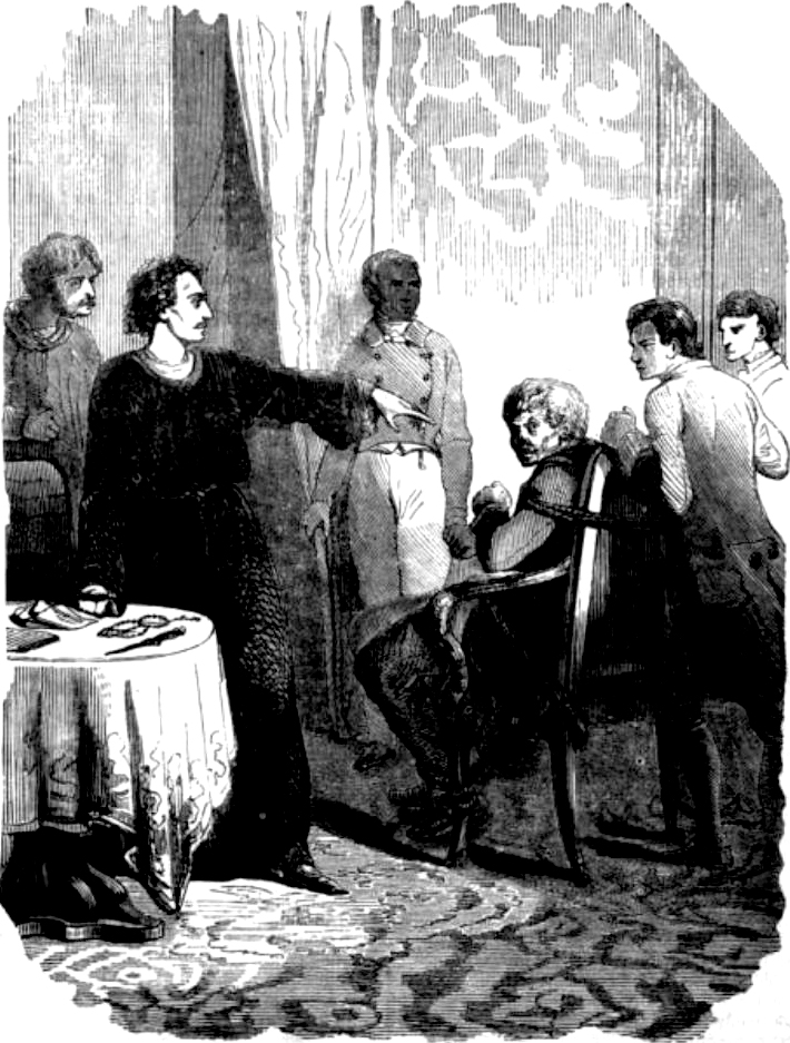 The Schoolmaster being blinded in punishment for his numerous crimes.